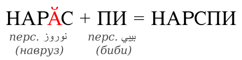 Etymology of Chuvash name Narspi